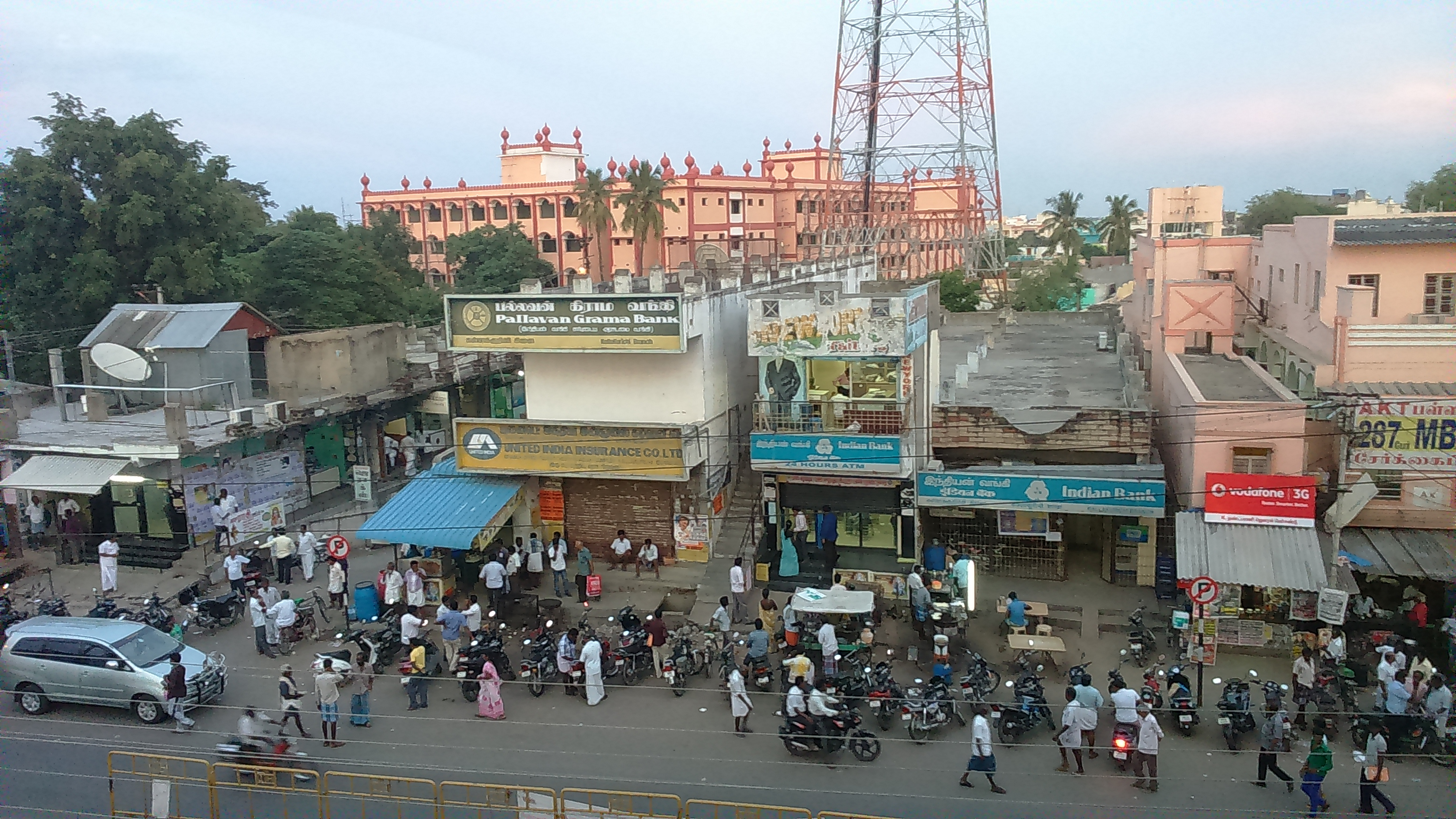 kacheri saalai